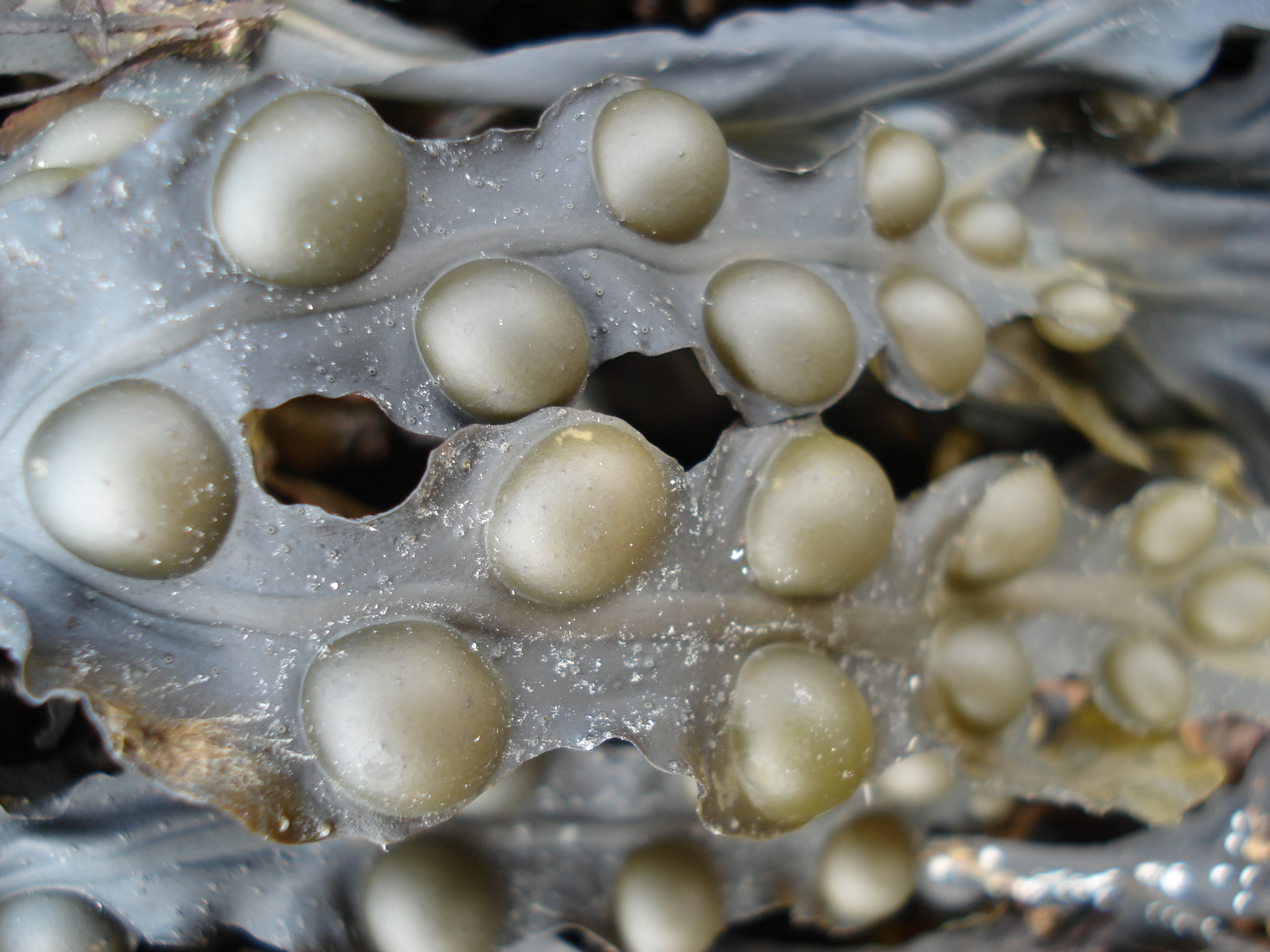 Fucus vesiculosus author: Allyss